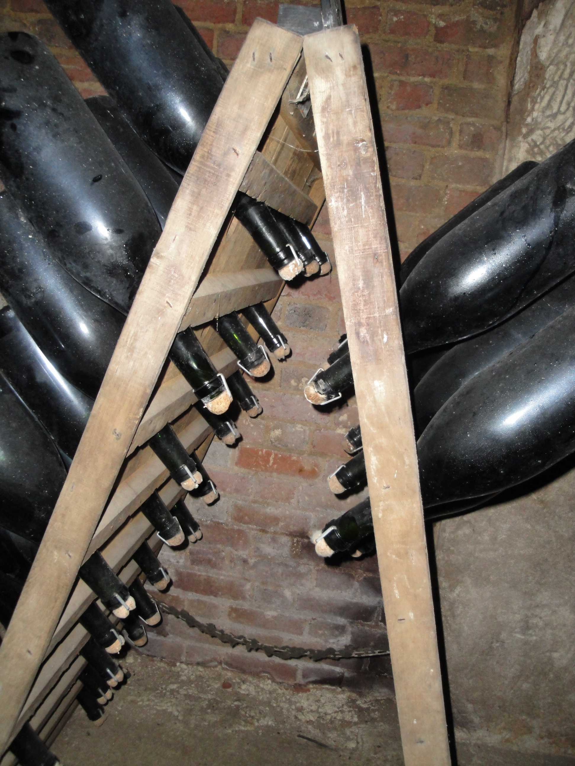 Pupitres in the cellars of Pol Roger, Épernay. Used for manual riddling of Champagne bottles. In this case with large-size bottles enclosed with natural corks.